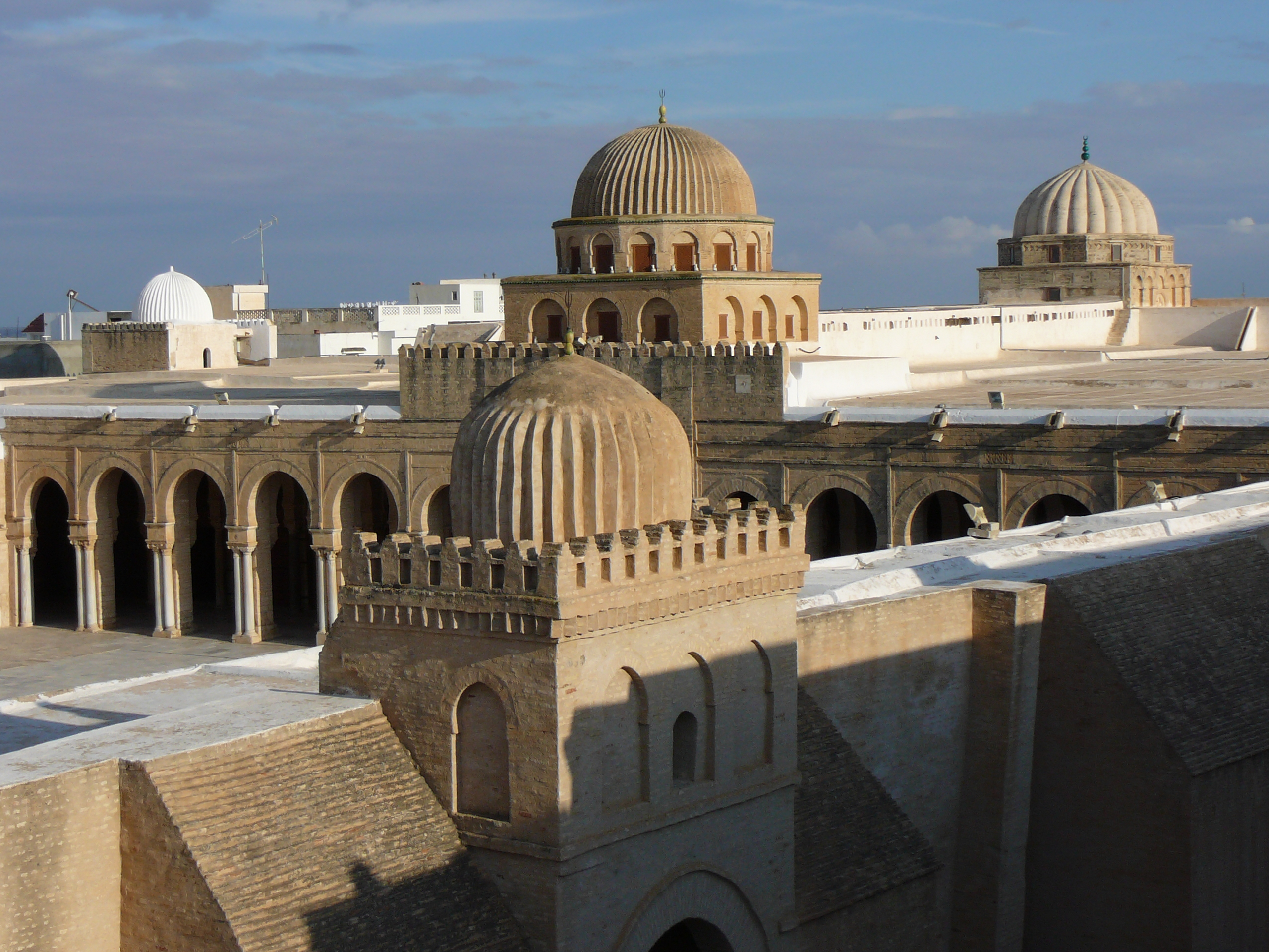 View of the flat roof and domes of the Great Mosque of Kairouan (also called the Mosque of Uqba), in Tunisia.